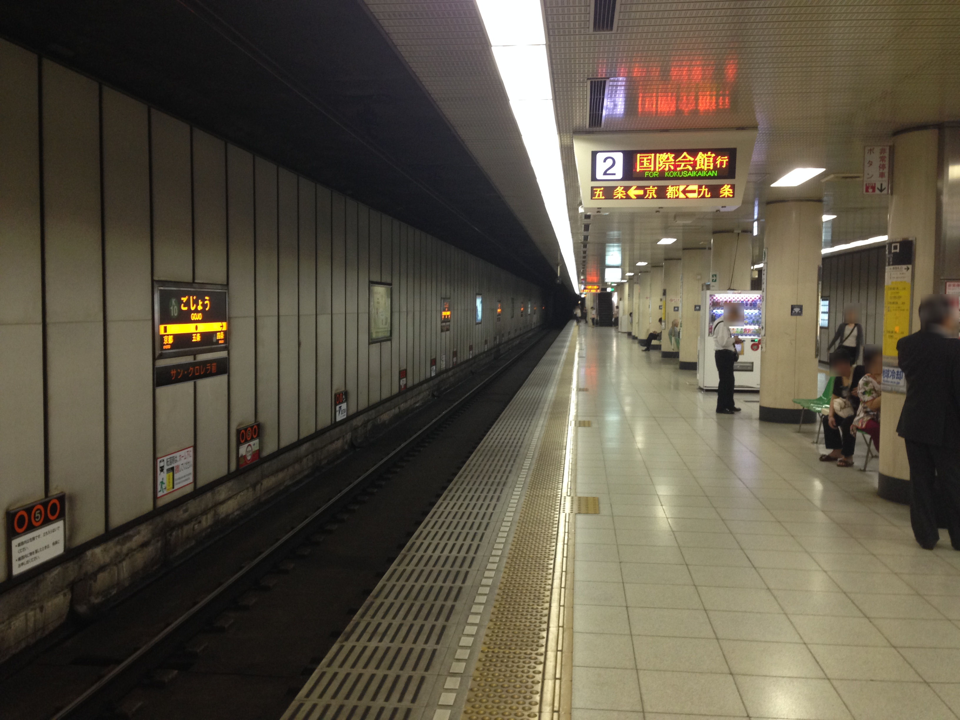 Kyoto subway Karasuma line Gojo station platform